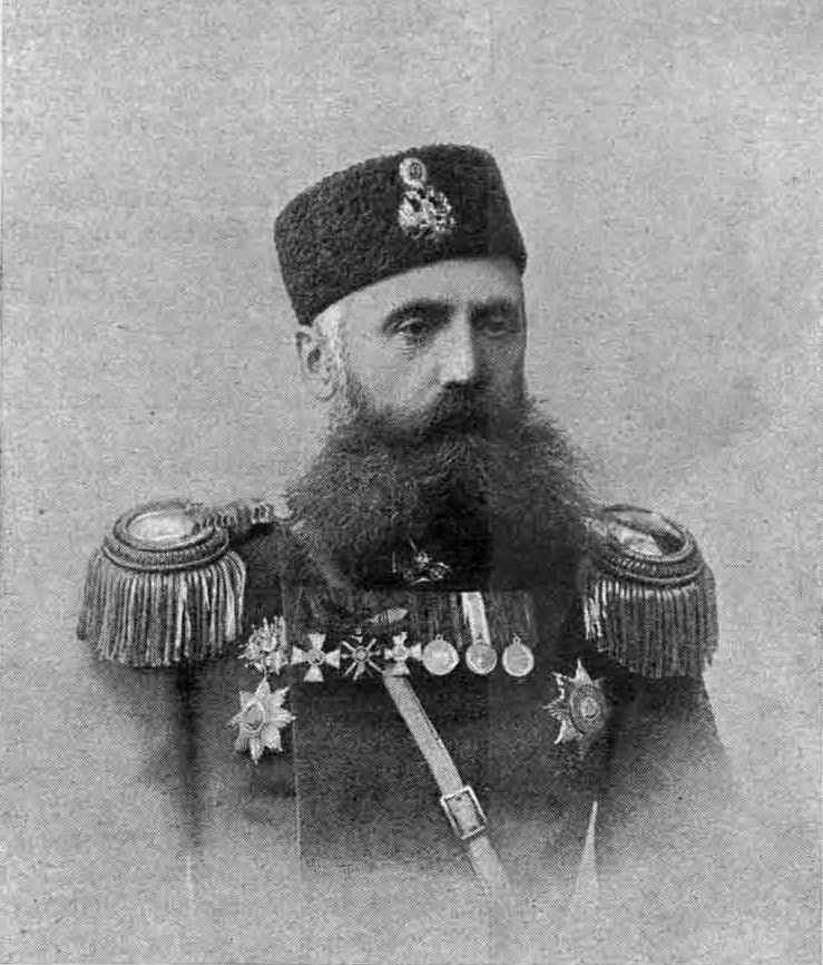 Lieutenant general Maksud Alikhanov-Avarsky